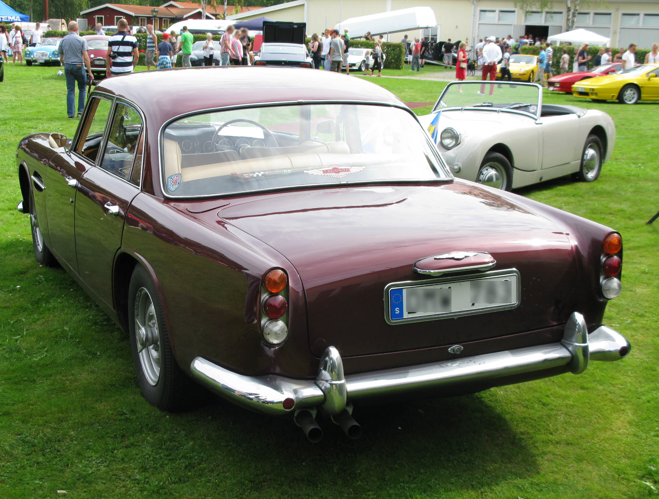 1964 Lagonda Rapide.Event: Sportbilsdagen i Västervik 2012.